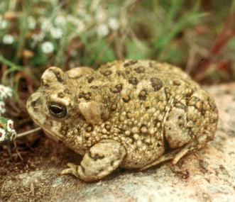 Arroyo Toad at the San Diego National Wildlife Refuge